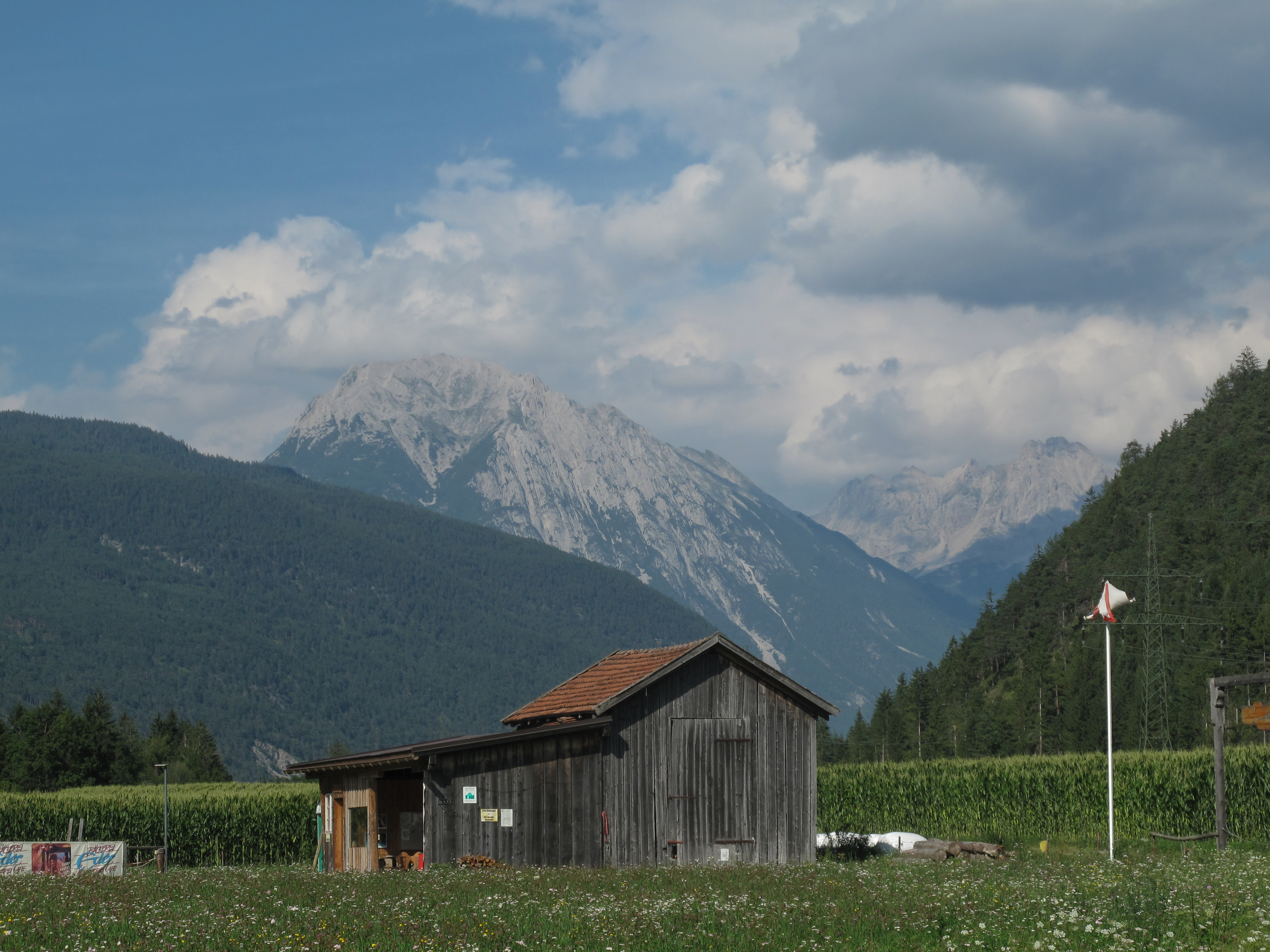 between Imst and Tarrenz, wooden shed in panorama